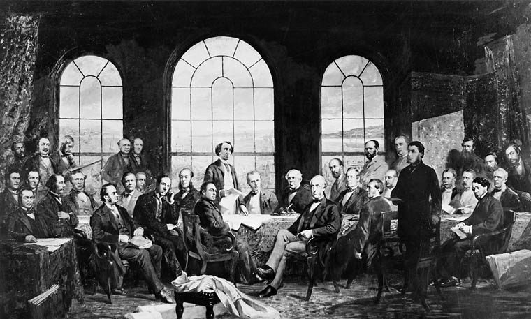 Photo by James Ashfield of Canadian artist Robert Harris' 1884 painting, "Conference at Québec in 1864, to settle the basics of a union of the British North American Provinces", also known as "The Fathers of Confederation". The original painting was destroyed in the 1916 Parliament Buildings fire.